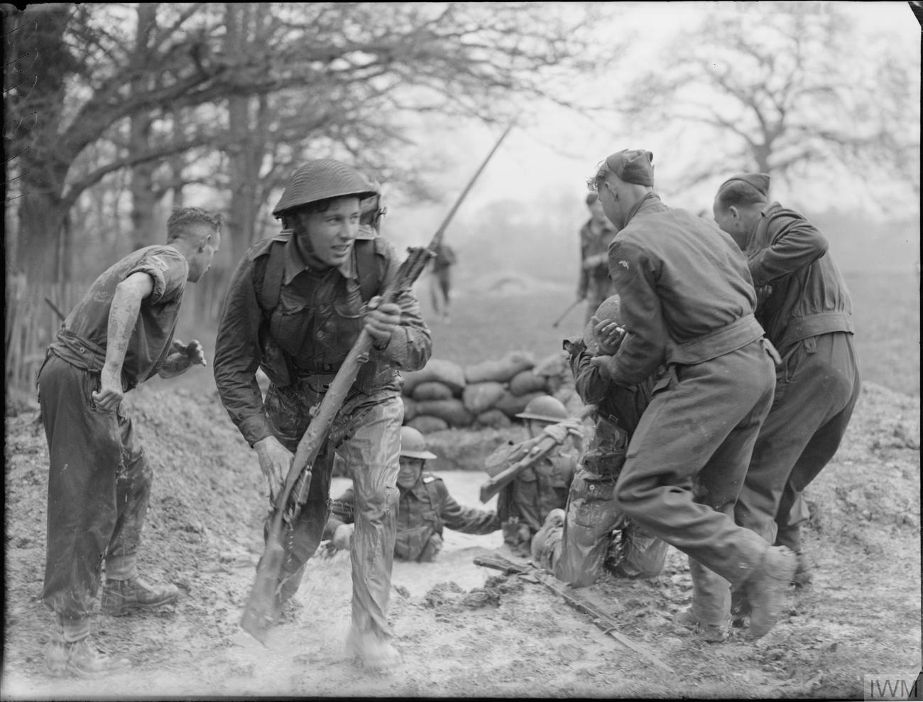 The British Army in the United Kingdom 1939-45 A soldier emerges from the 'mud bath' during training at 44th Division's battle school near Tonbridge in Kent, 22 April 1942.